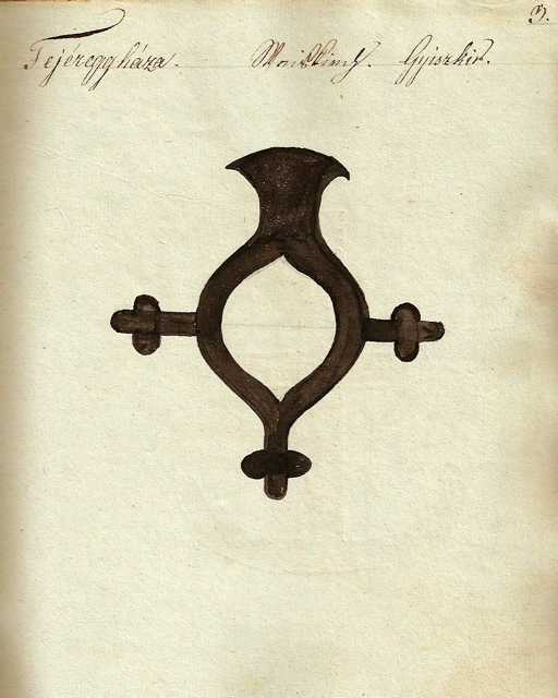 Cattle brand of Deutsch-Weißkirch/Viscri/Szászfehéregyhaza in Transylvania